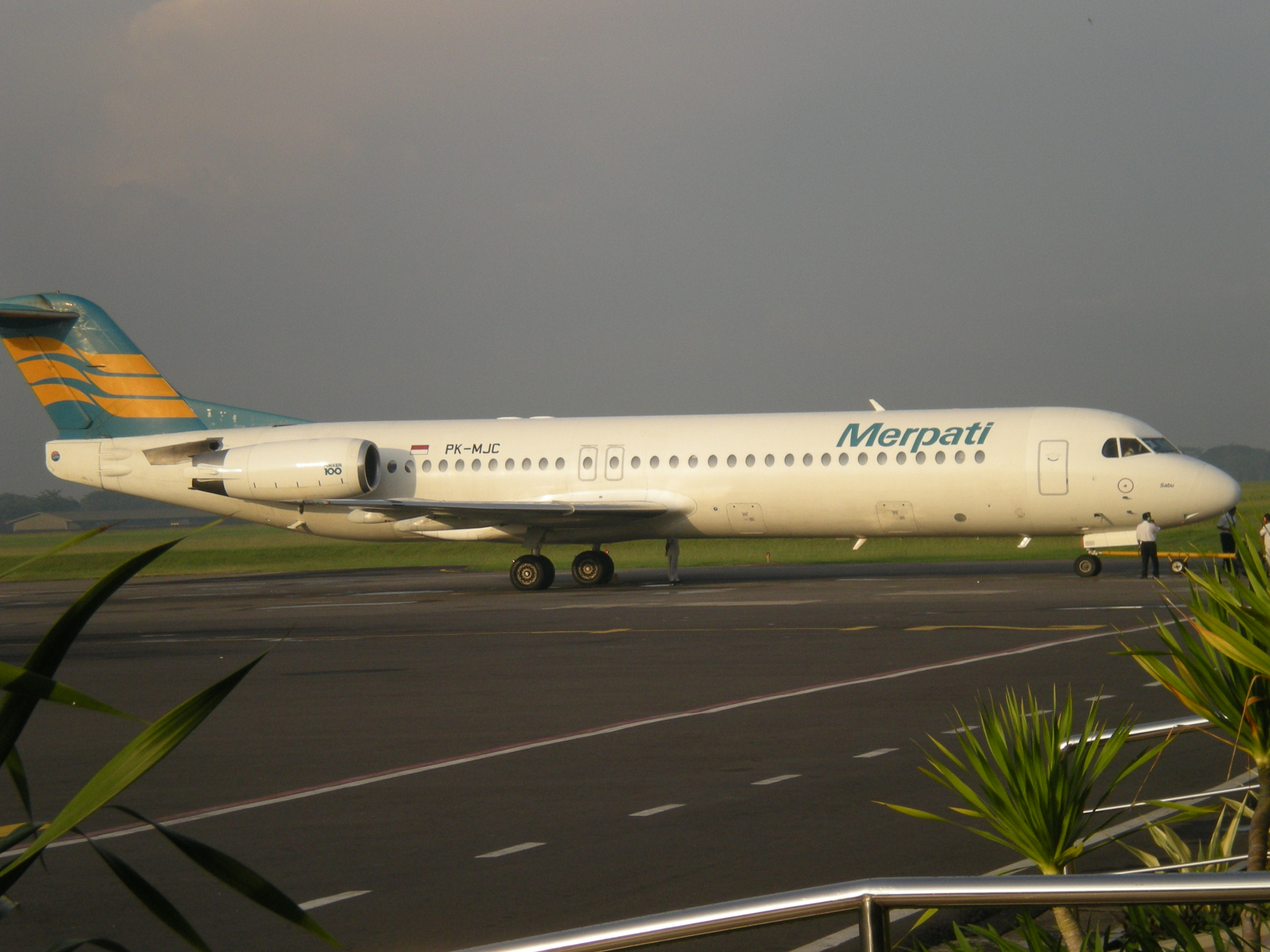 Merpati Nusantara airplane taken at Adisutjipto Airport, Yogyakarta, Indonesia